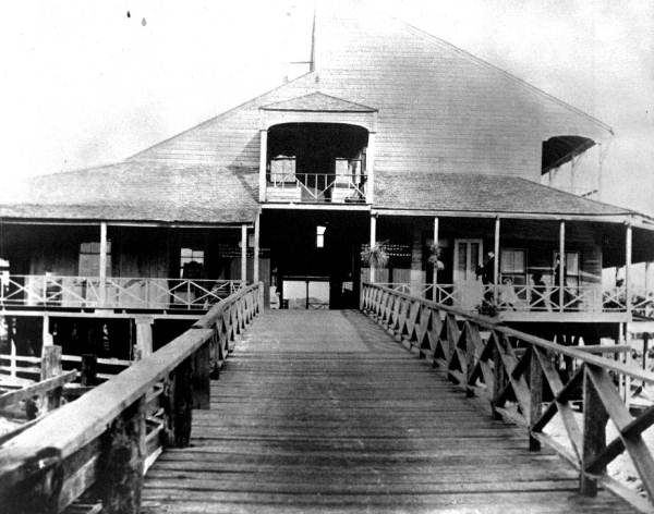 The "Barracks", built in 1864 at Fort Dulaney, Punta Rassa, Florida. Used by the International Ocean Telegraph Company as the terminal for the undersea cable to Cuba until the building burned in 1906. Later in the 19th century used as a hotel called the "Tarpon House".